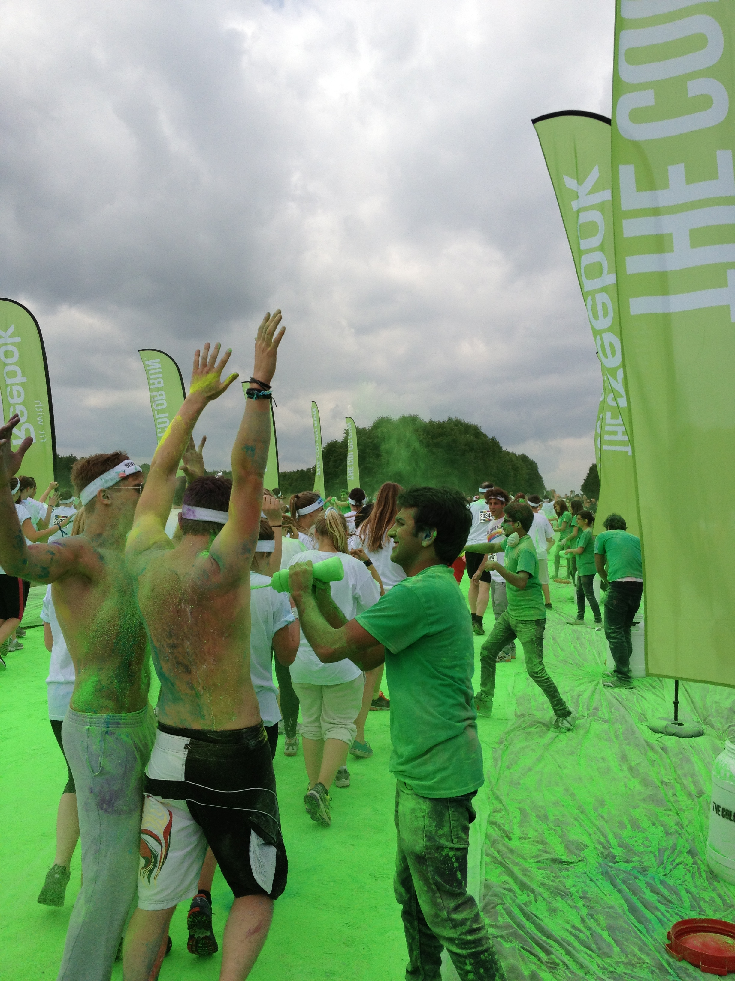 The green zone of The Color Run in Munich, Germany on 30.06.2013